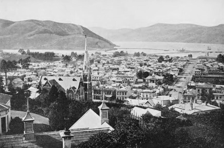 Image from scanned PD book